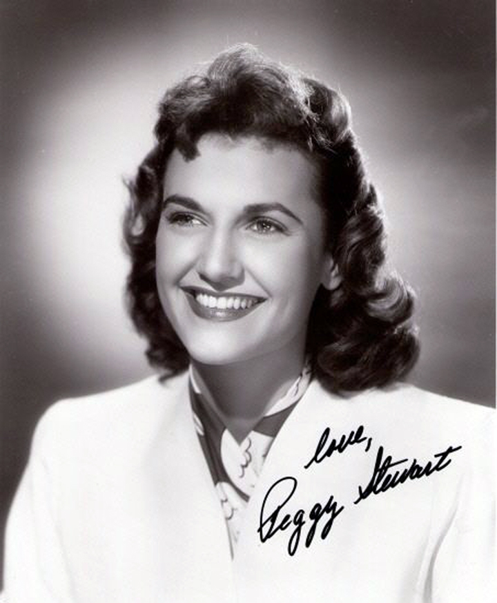 Peggy Stewart publicity photo